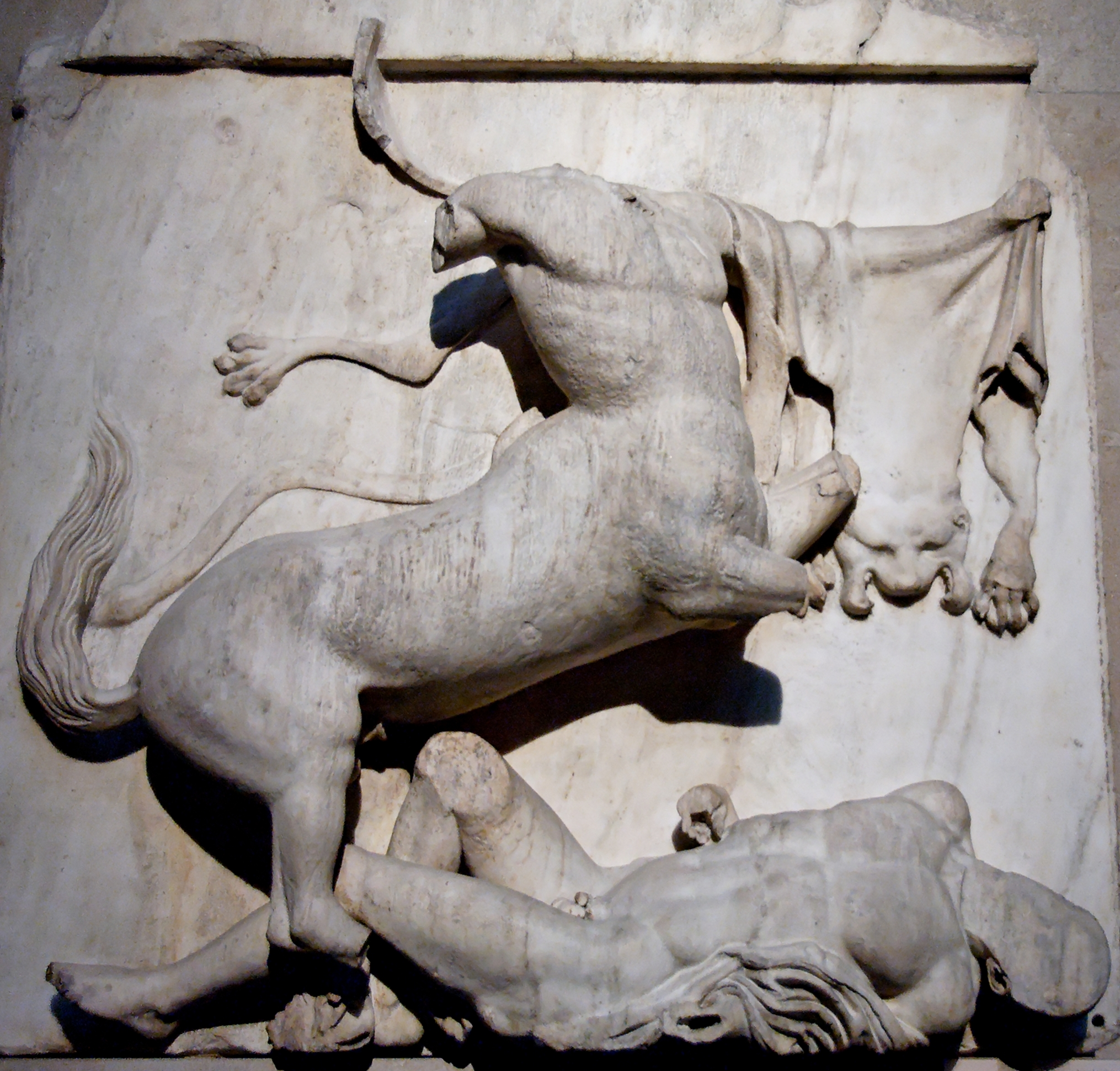 Lapith fighting a centaur. South Metope 28, Parthenon, ca. 447–433 BC.